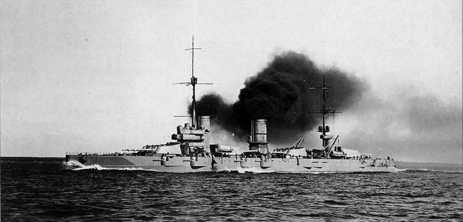 Imperial Russian battleship Poltava.